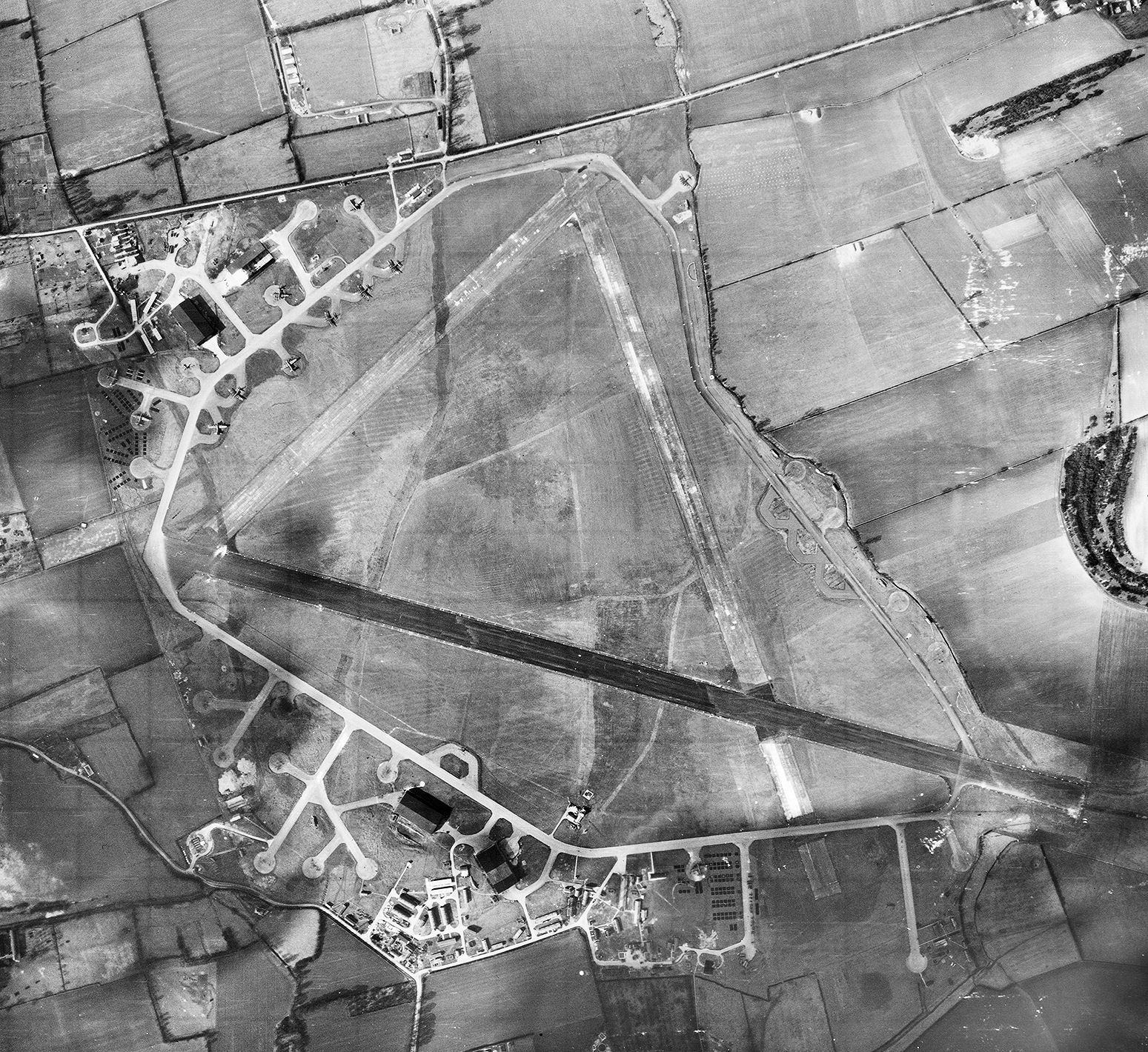 Aerial photograph of RAF Cheddington looking north, the bomb dump at the top, the control tower and technical site are at the bottom, 3 March 1944. Note the many Consolidated B-24 Liberator bombers of the Combat Crew Replacement Center parked on the loop hardstands. Photograph taken by 7th Photographic Reconnaissance Group, sortie number US/7PH/GP/LOC194. English Heritage (USAAF Photography).